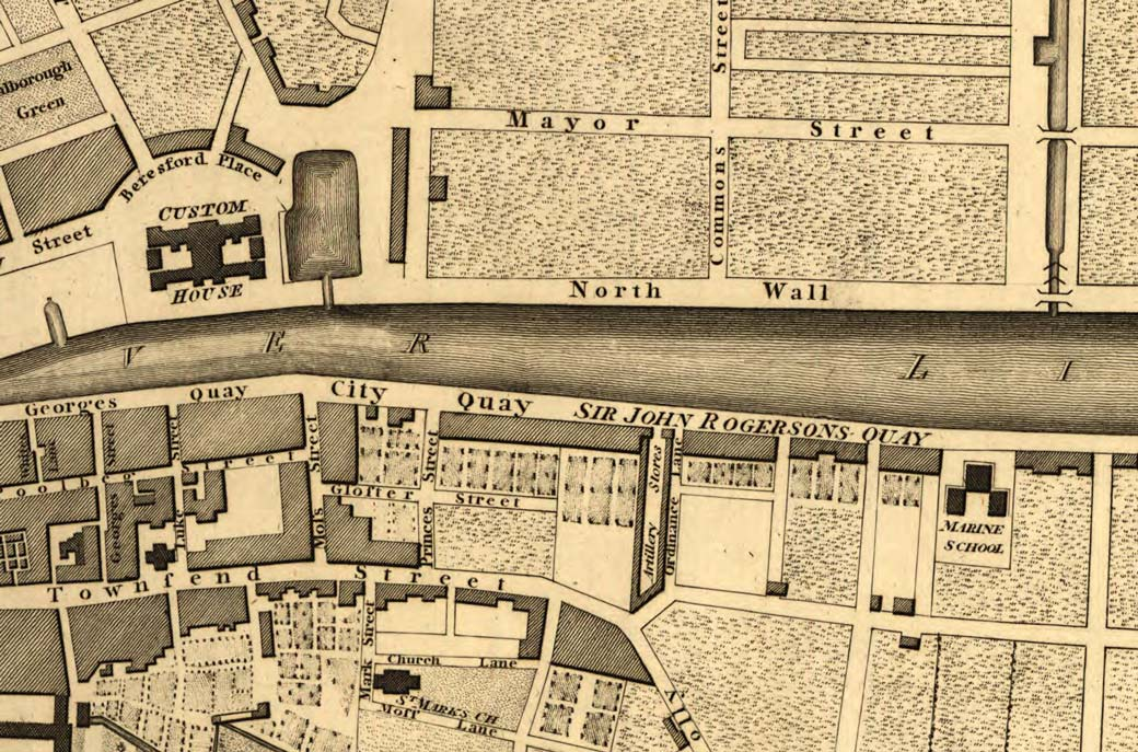 Part of the Plan of Greater Dublin including Circular Roads 1797